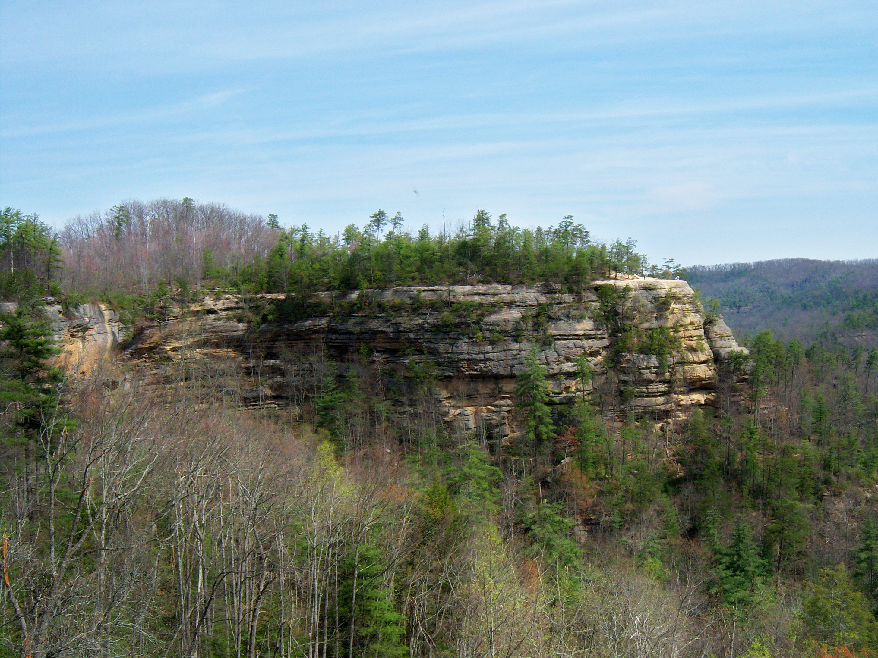 A rock cliff in Natural Bridge State Resort Park near Slade, Kentucky.